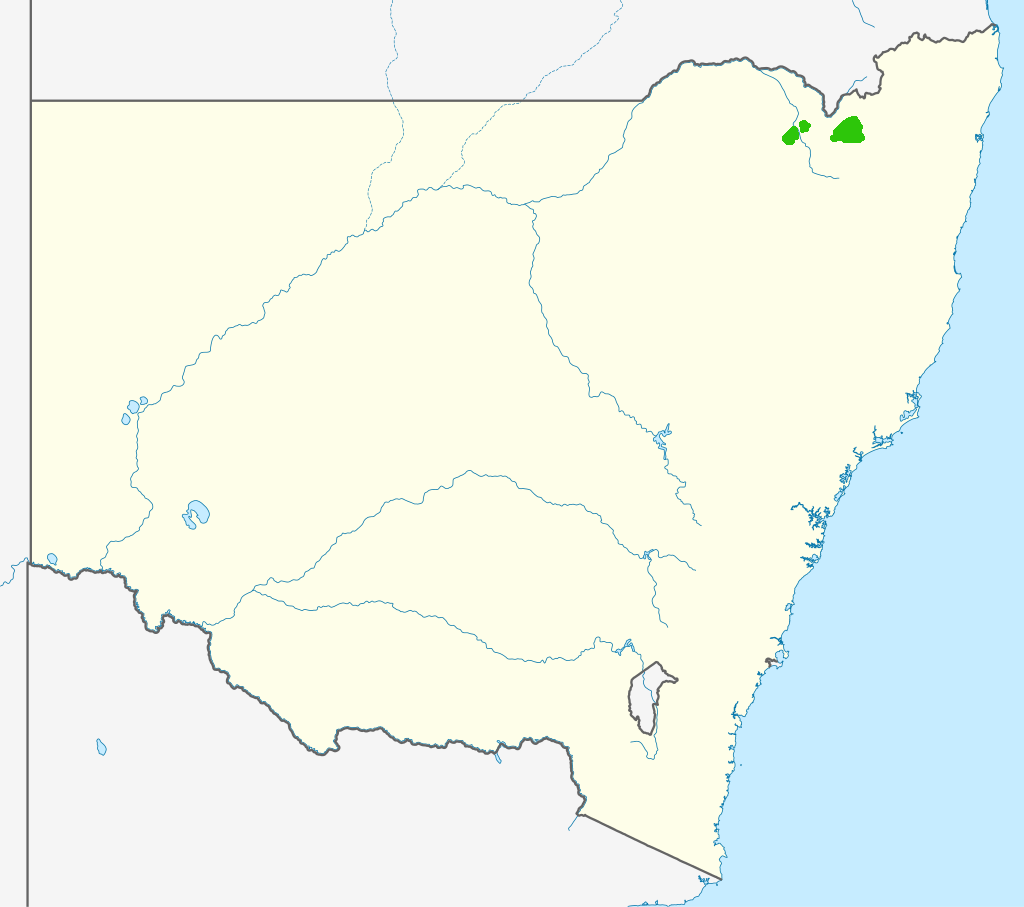 Distribution map of Persoonia terminalis L.A.S.Johnson & P.H.Weston, based on official New South Wales Herbarium records. Original map is File:Australia New South Wales location map blank.svg. Data is from NSW Herbarium Plantnet.